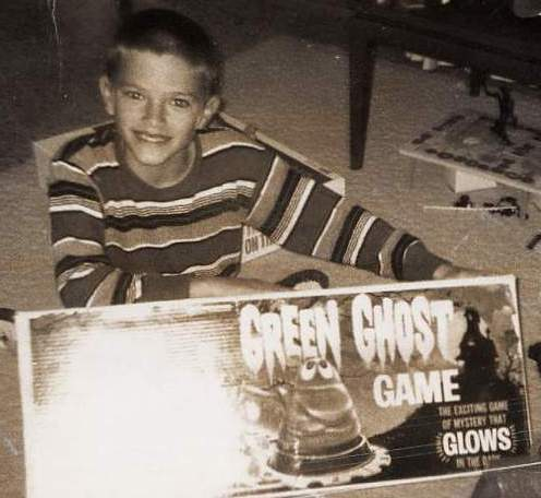 Boy showing "Green Ghost" game.